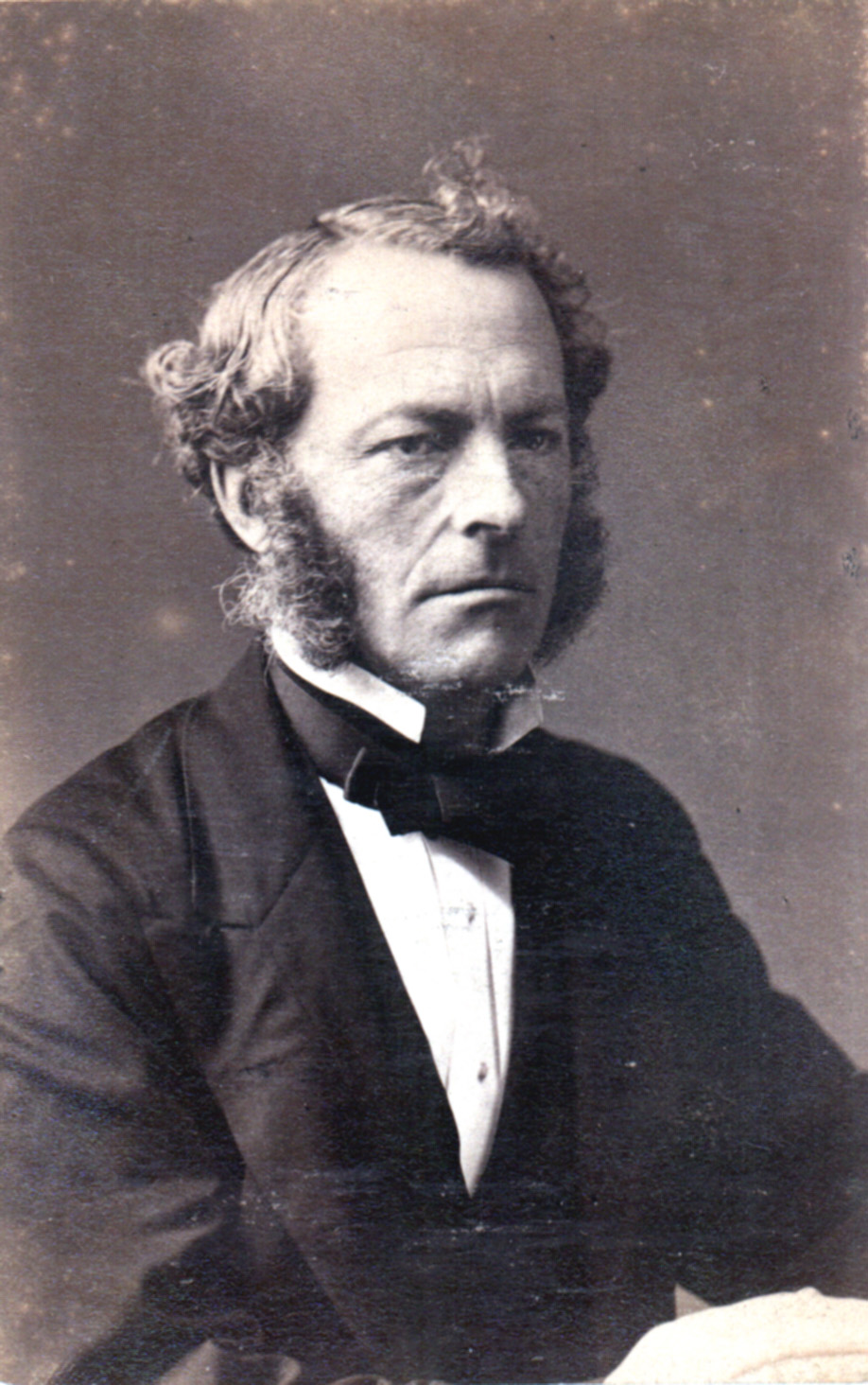 Creator/Photographer: Unidentified photographer Medium: Medium unknown Dimensions: 9.2 cm x 5.8 cm Date: prior to1903 Collection: Scientific Identity: Portraits from the Dibner Library of the History of Science and Technology - As a supplement to the Dibner Library for the History of Science and Technology's collection of written works by scientists, engineers, natural philosophers, and inventors, the library also has a collection of thousands of portraits of these individuals. The portraits come in a variety of formats: drawings, woodcuts, engravings, paintings, and photographs, all collected by donor Bern Dibner. Presented here are a few photos from the collection, from the late 19th and early 20th century. Repository: Smithsonian Institution Libraries Accession number: SIL14-S006-11